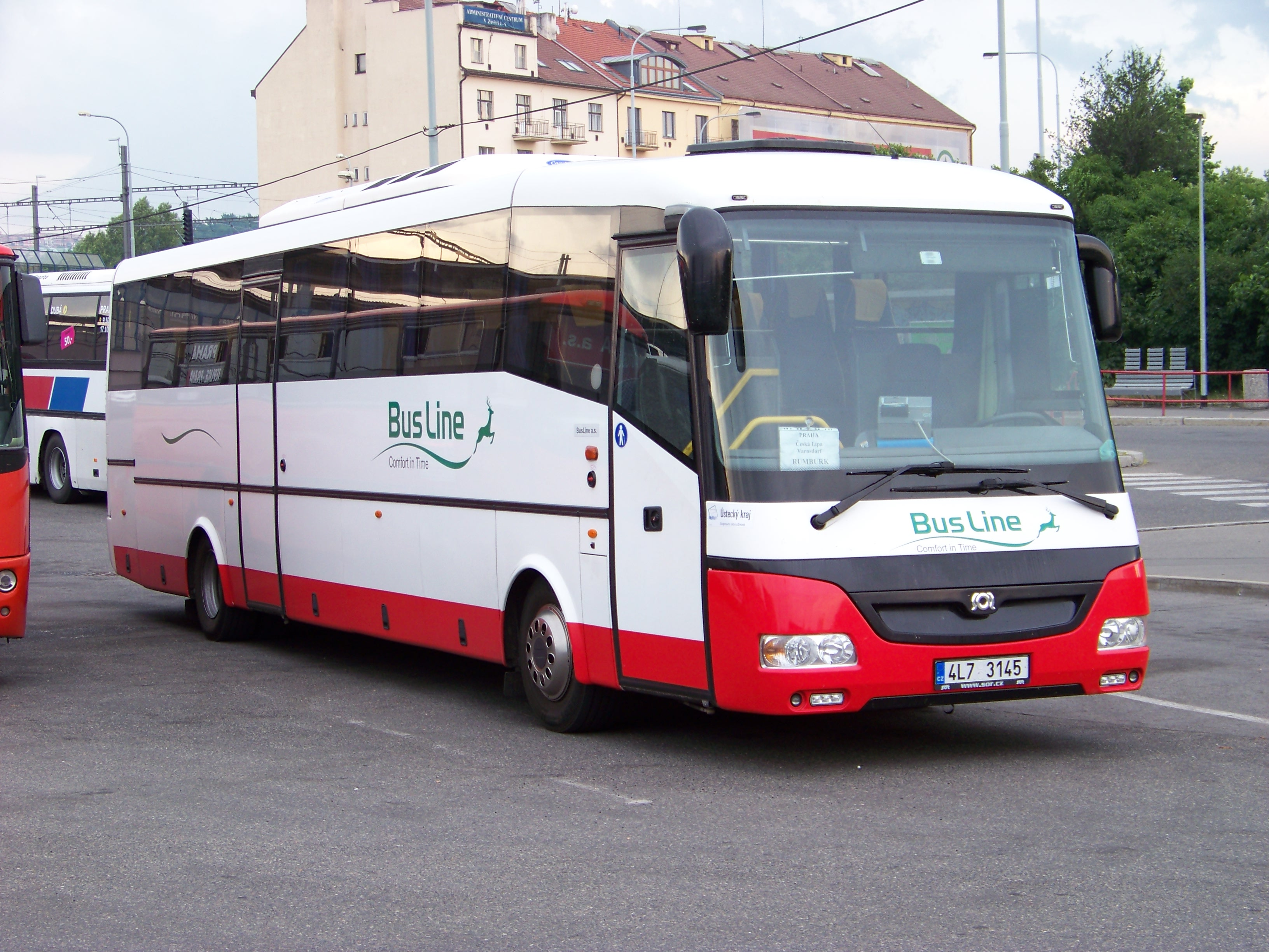 Prague-Holešovice, Czech Republic. Nádraží Holešovice bus station. SOR LH 12 of BusLine.